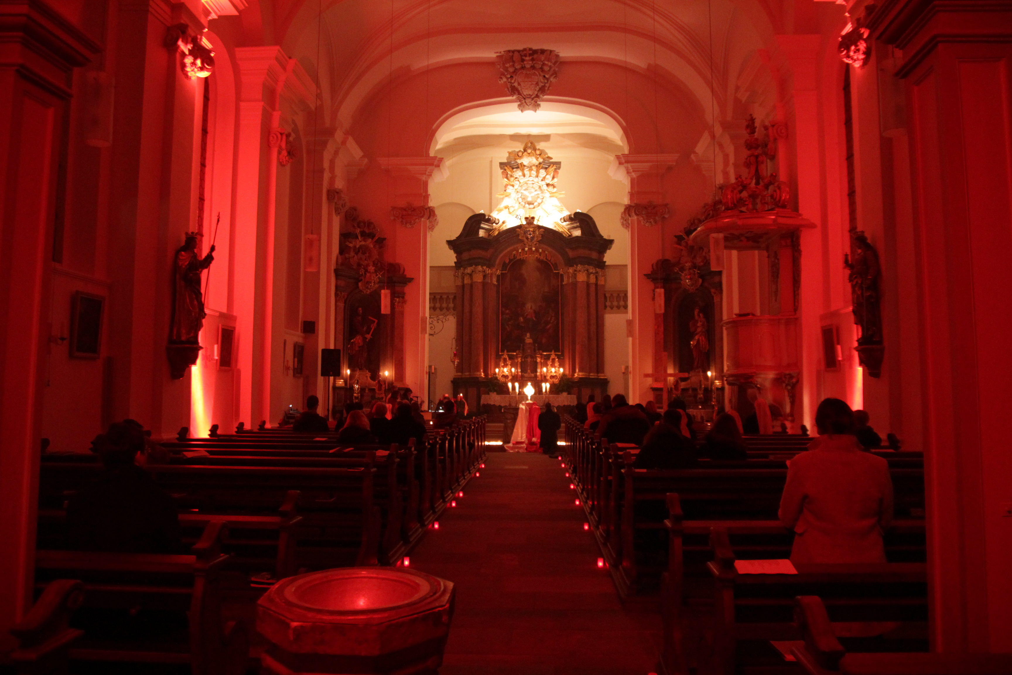 Nightfever, a catholic adoration event combined with public mission outside the church, at Heilig-Geist-Kirche in Fulda.